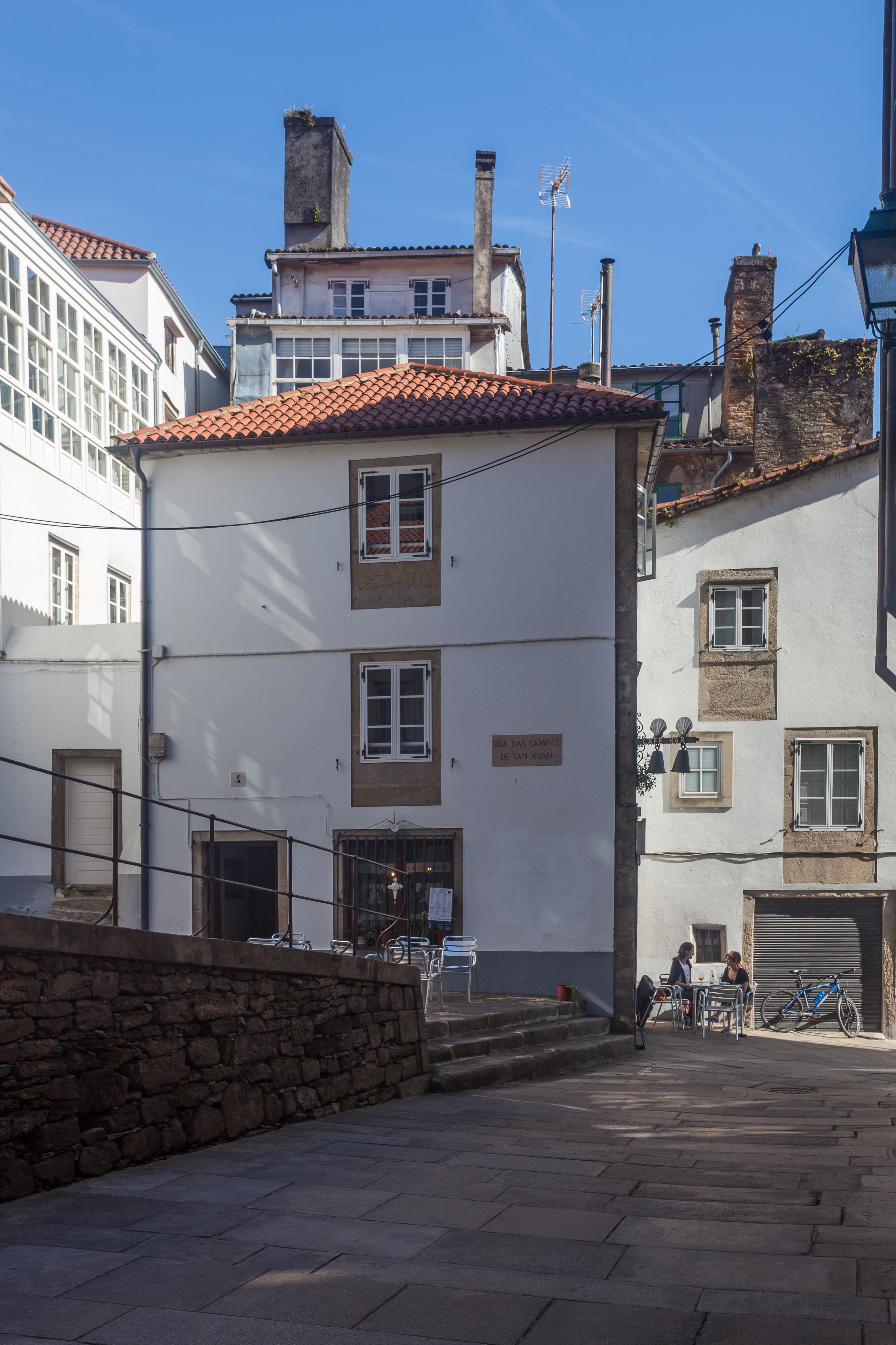 Moeda Vella street. Santiago de Compostela, Galicia